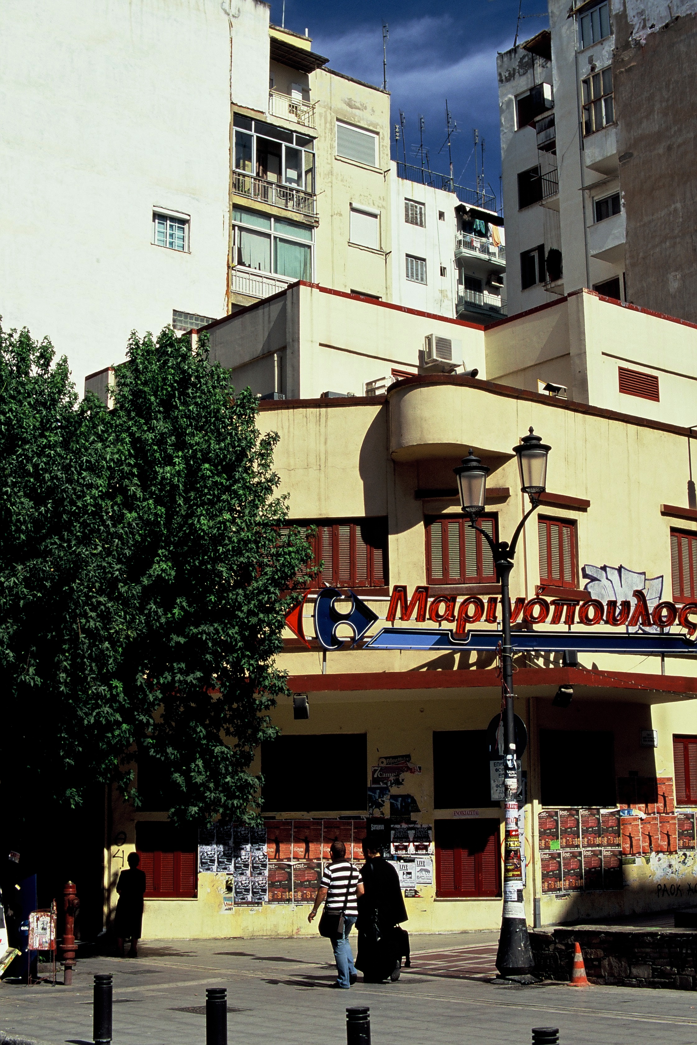 Carrefour Marinopoulos supermarket in Tessaloniki